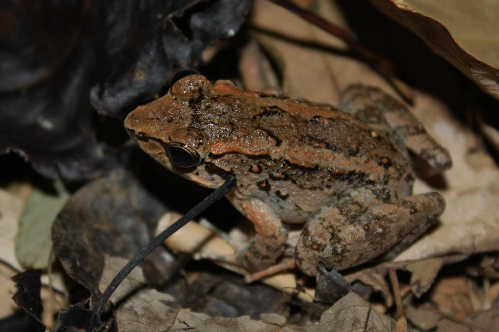 Found next to the Loboc river on Bohol. Thanks to Arvin Diesmos for the identification.